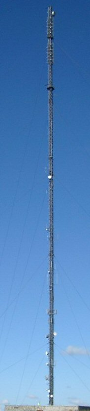 Photograph of transmitter mast at North Hessary Tor, Dartmoor, Devon, UK. Taken by contributor, September 2002, all rights waived.